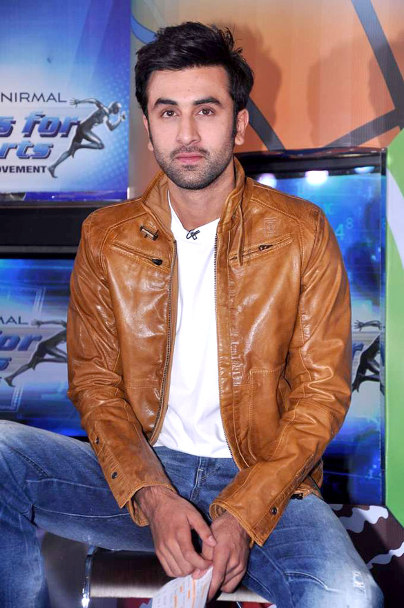 Ranbir Kapoor at the NDTV Marks for Sports event